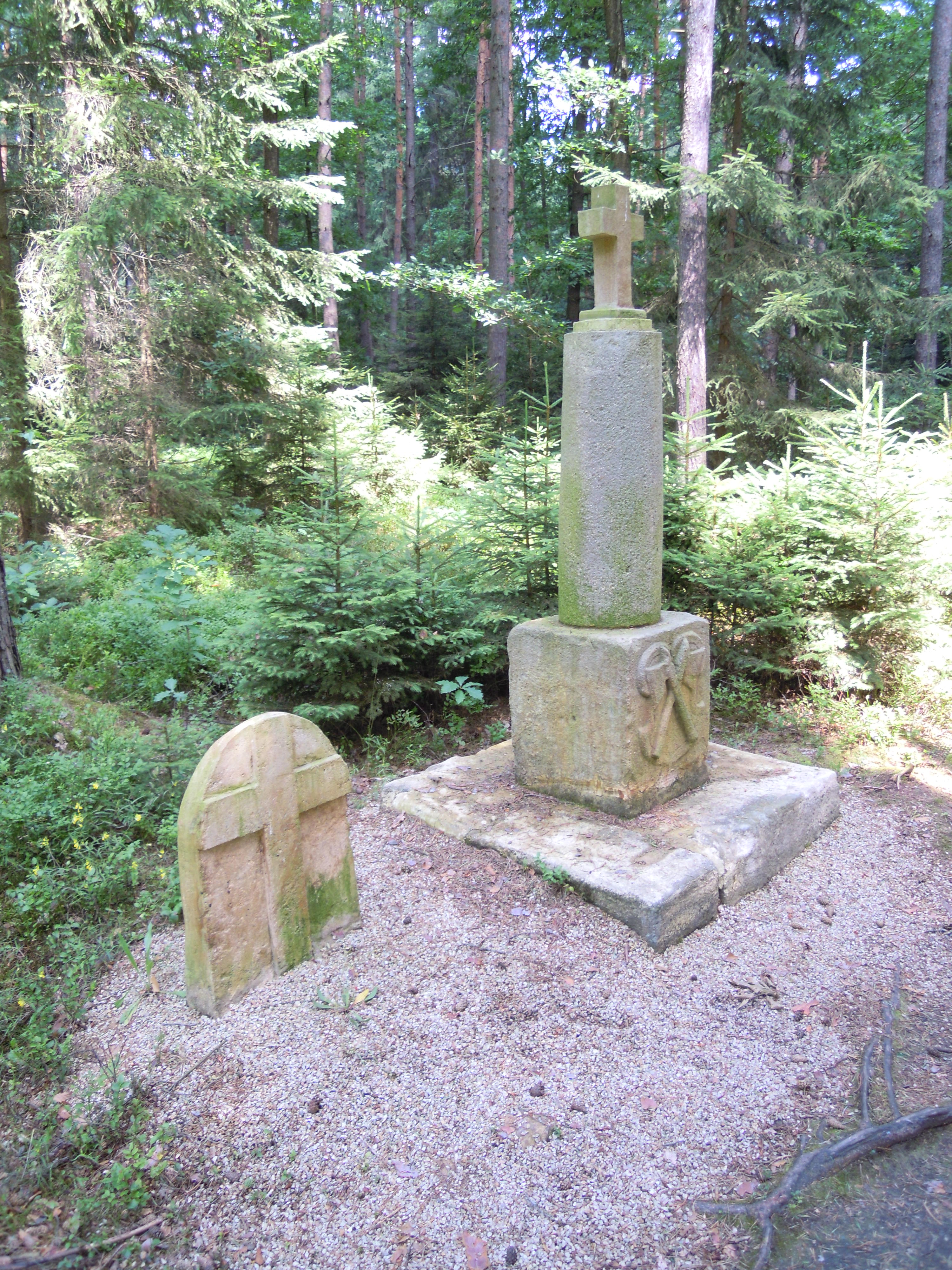 Stone cross and a wayside shrine at Bolevec, Pilsen, place called "At the butcher"